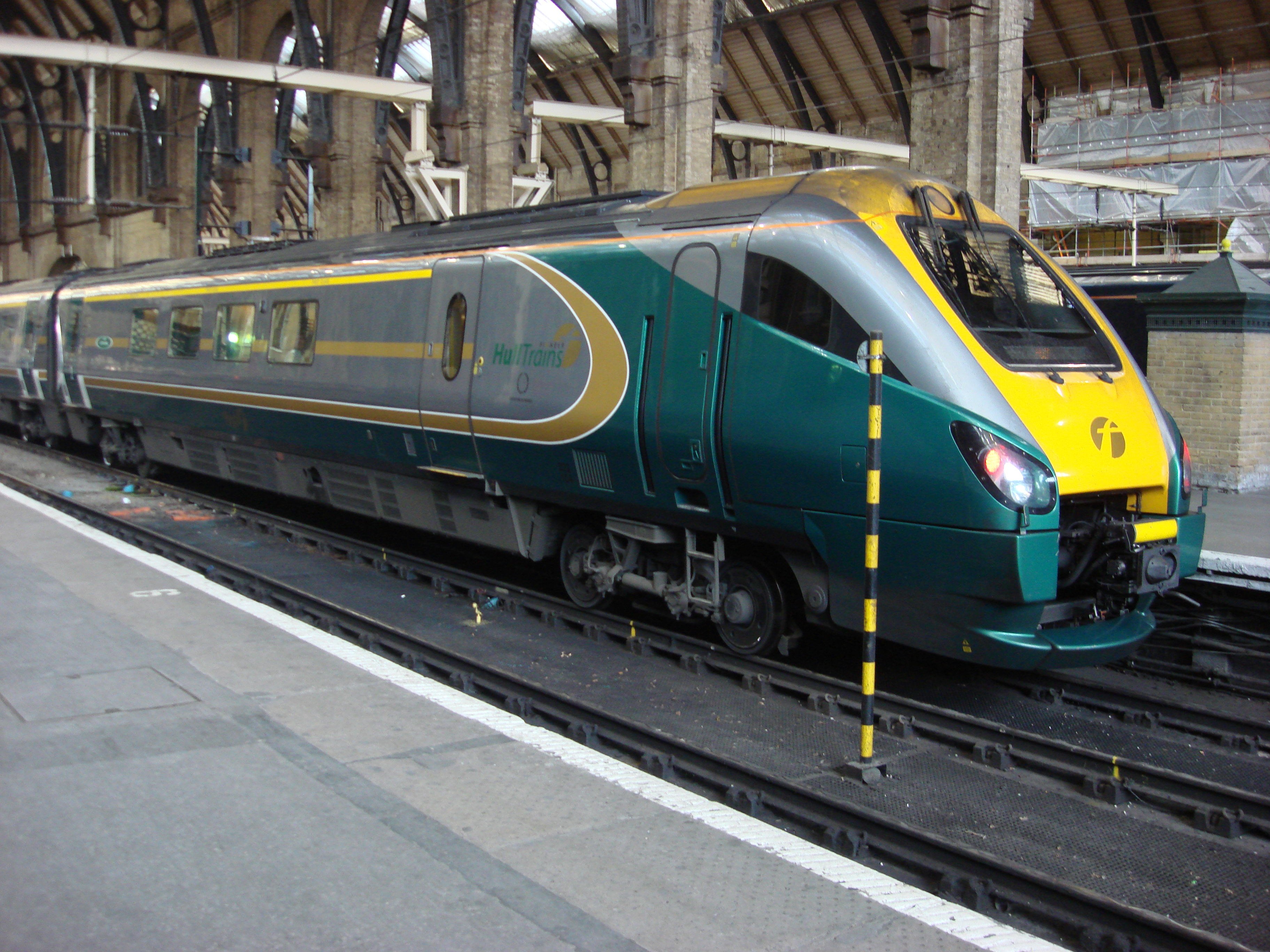 222104 at Kings Cross, London, UK